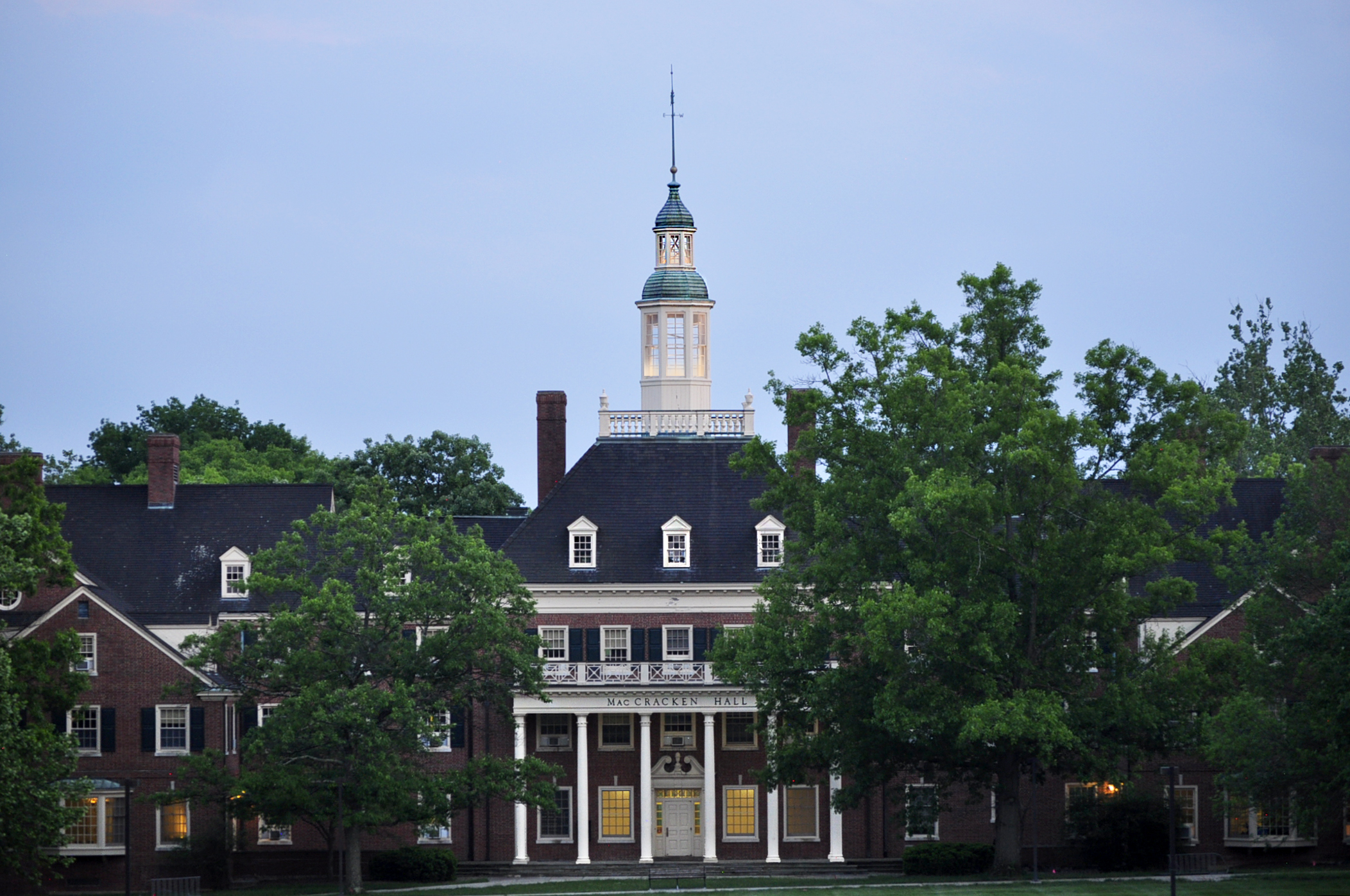 Miami University MacCracken Hall, built in 1957.